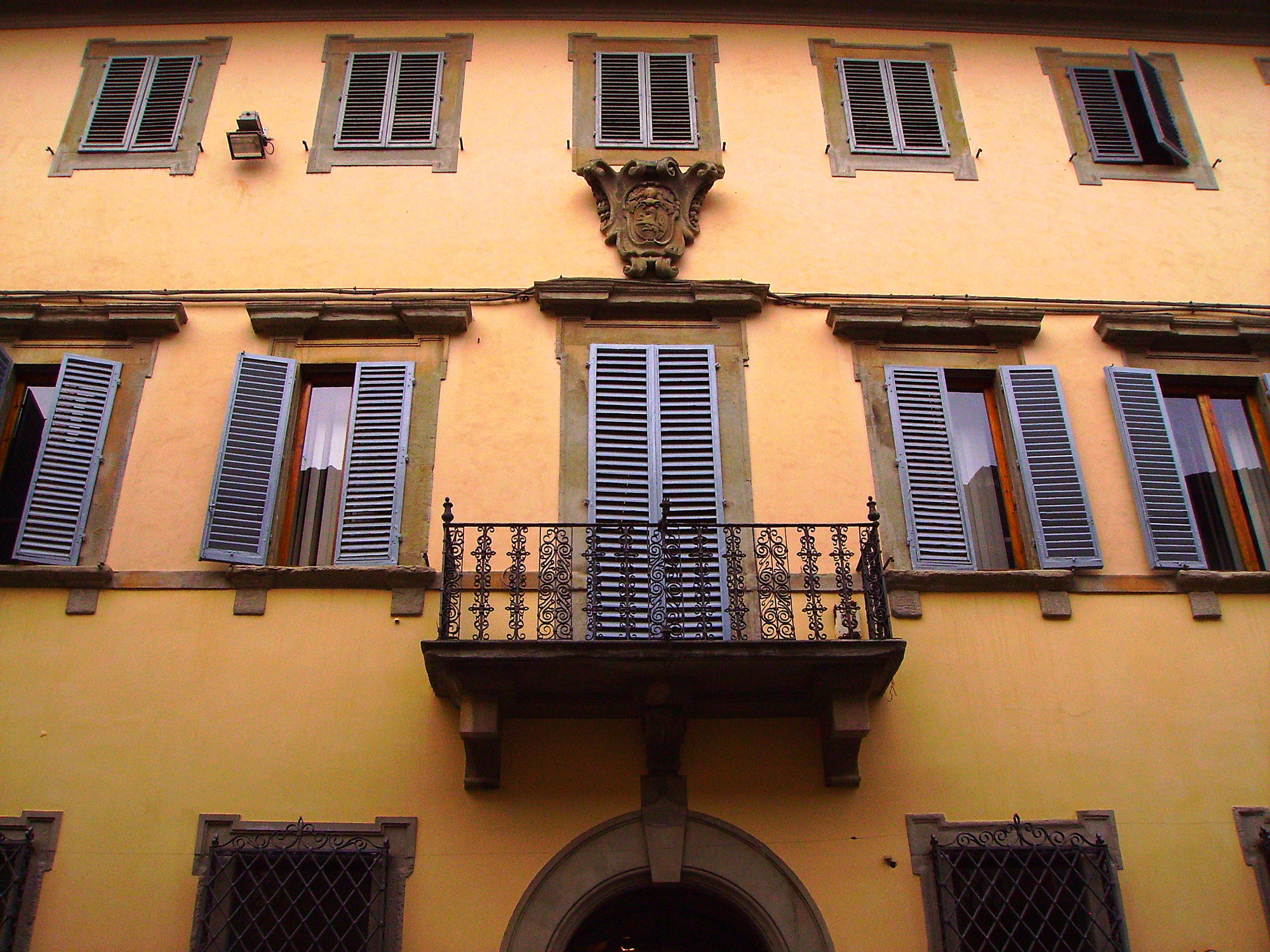 The façade of Palazzo Mari in the main street of Montevarchi